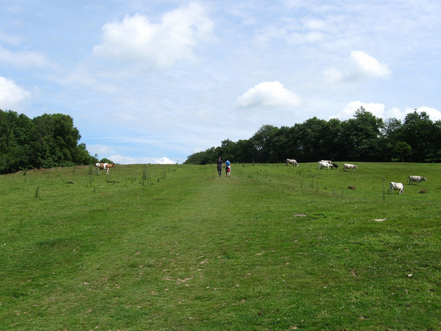 Senlac Hill The western flank of the hill that was the battleground for 1066.